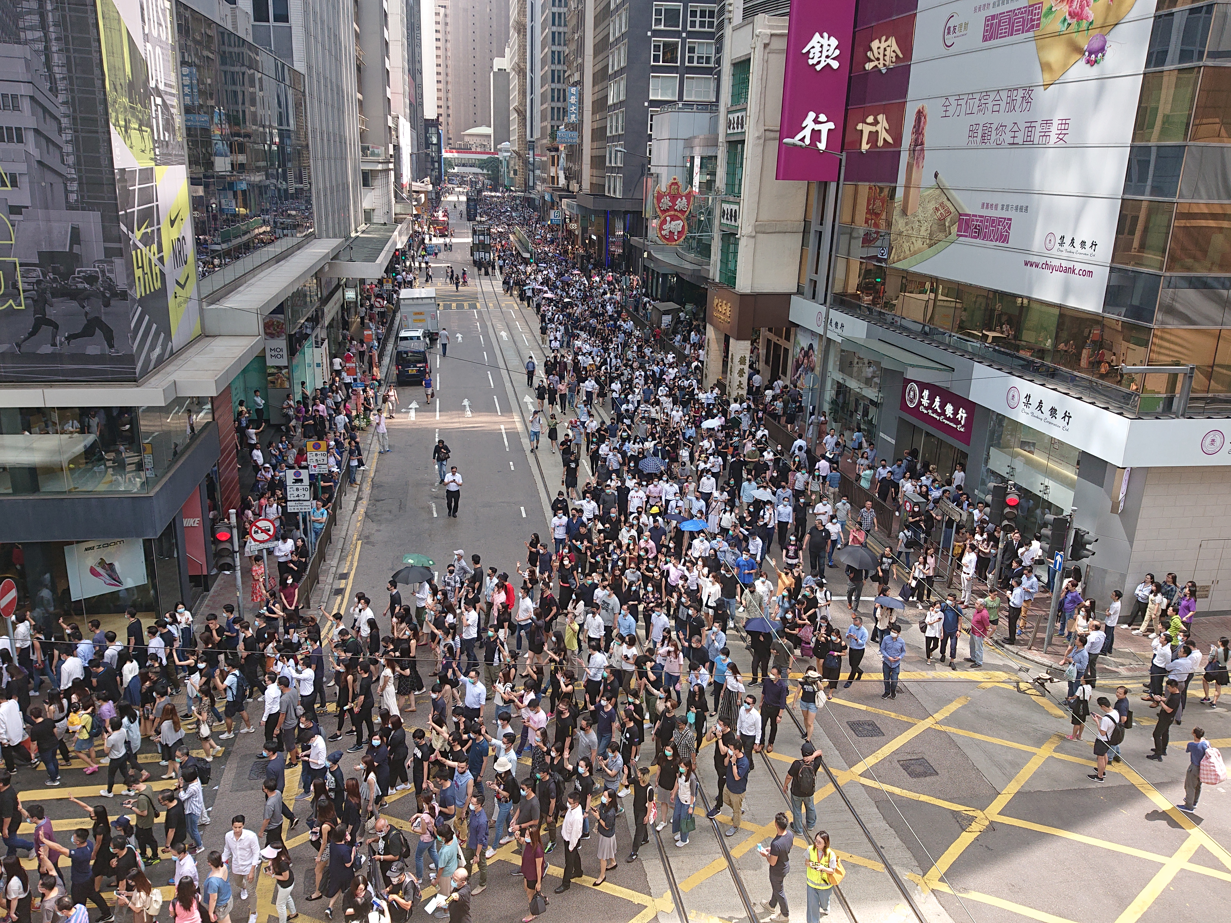 2019-10-04 Central Protest on Des Voeux Road Central near Chiyu Bank (2)